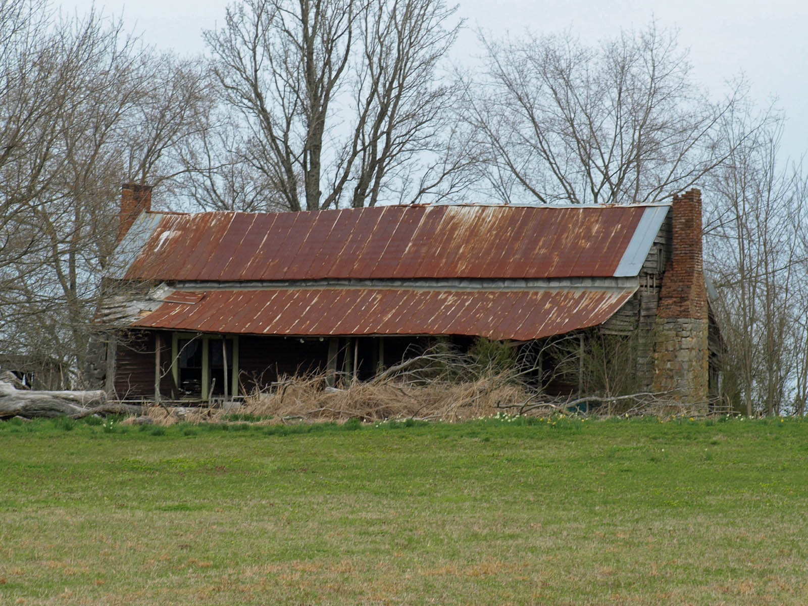 The Urquhart House near Huntsville, Alabama, is listed on the National Register of Historic Places.